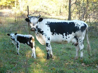 Photo taken by the page author, Phil Lang. Randall Cattle, Vermont